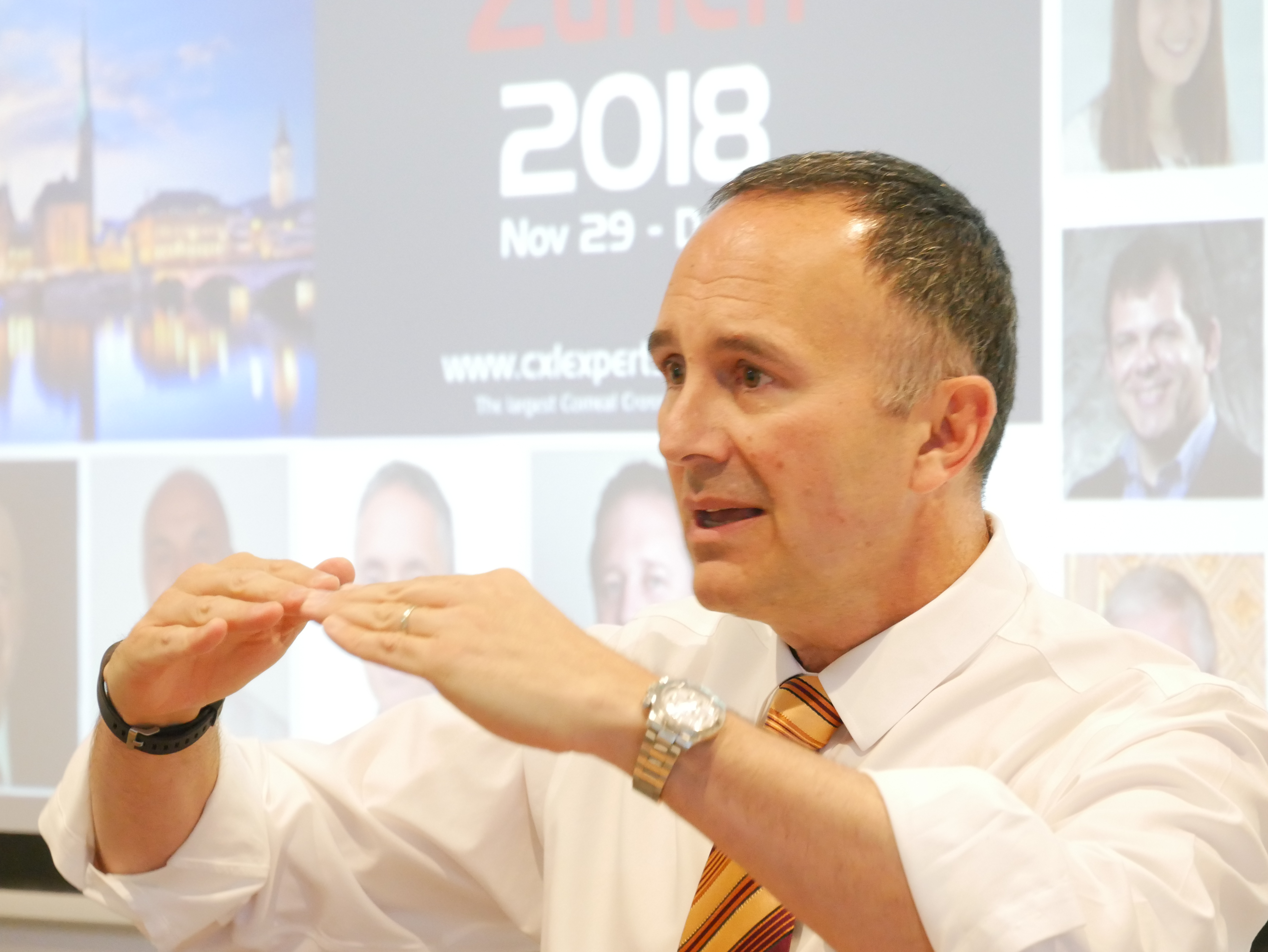 Farhad Hafezi lecturing on keratoconus detection and treatment